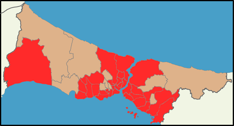 Map showing the ongoing public forums' districts, where the democracy, nature and justice topics and problems are being discussed by the local folk, in various locations, in Istanbul, during 2013 protests in Turkey. Attribution to Background Map: The Emirr